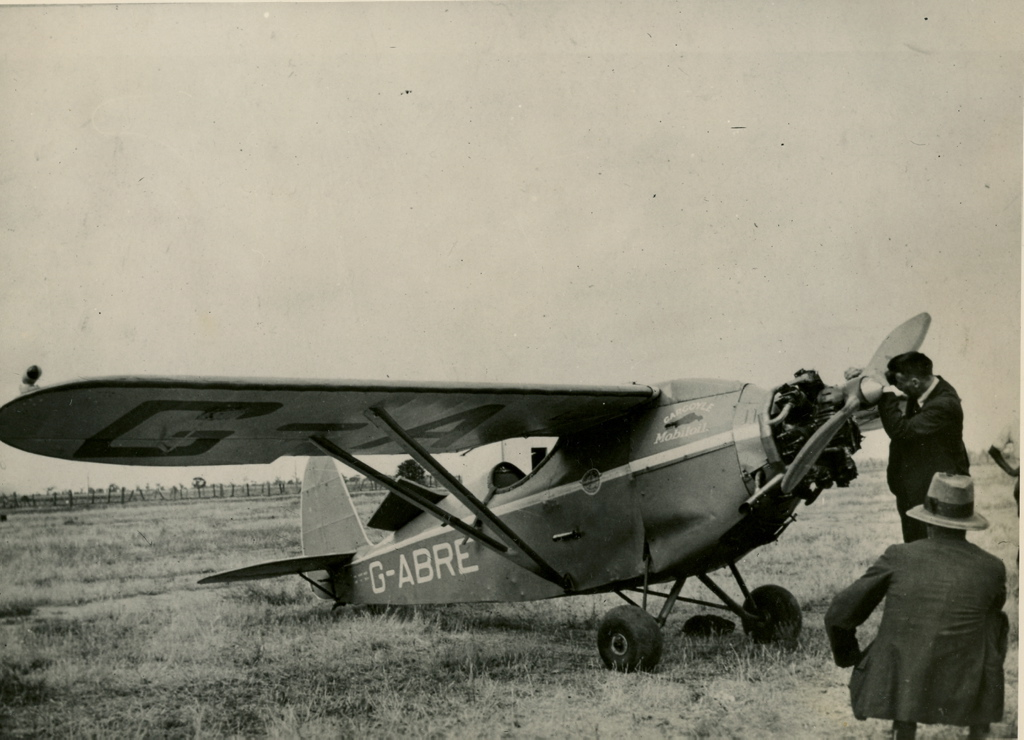 Part Of: Powerhouse Museum Collection General information about the Powerhouse Museum Collection is available at Persistent URL